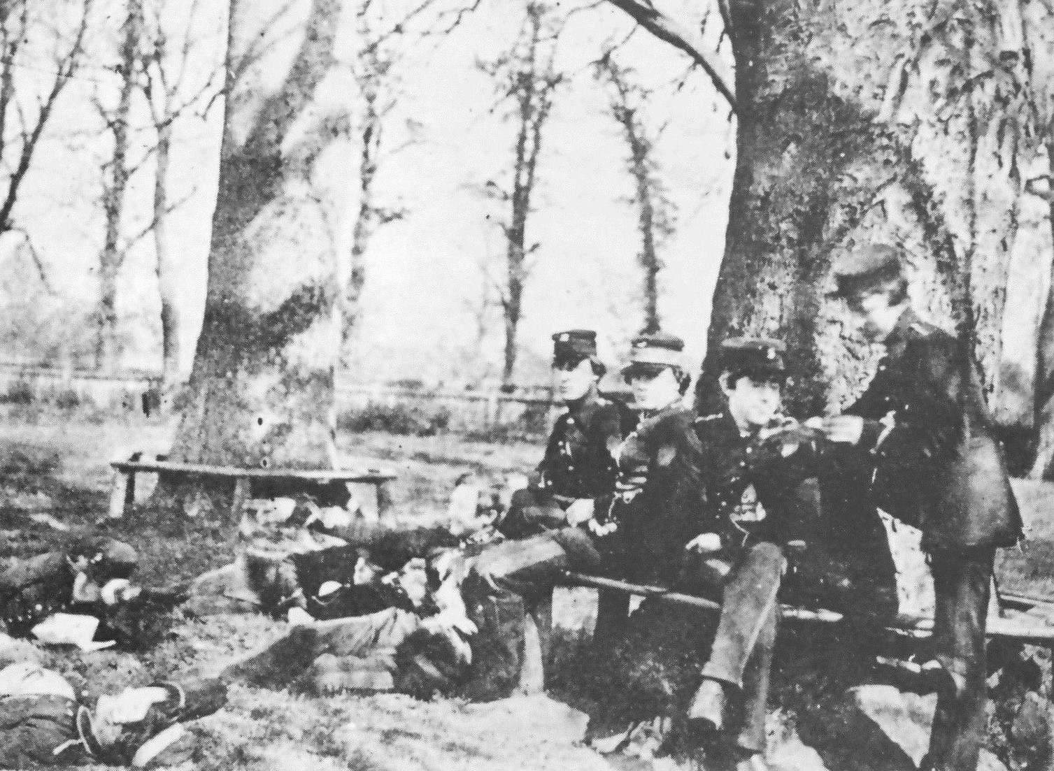 Cadets from Addiscombe Military Seminary, photographed c1858. The 4 cadets on the seat, left to right, are: Augustus B. Portman, George E. Hancock, Farquhar D. MacKinnon, John F. Cookesley.